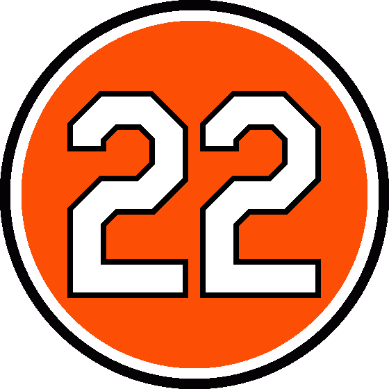 The number "22", retired for Jim Palmer by the Baltimore Orioles.